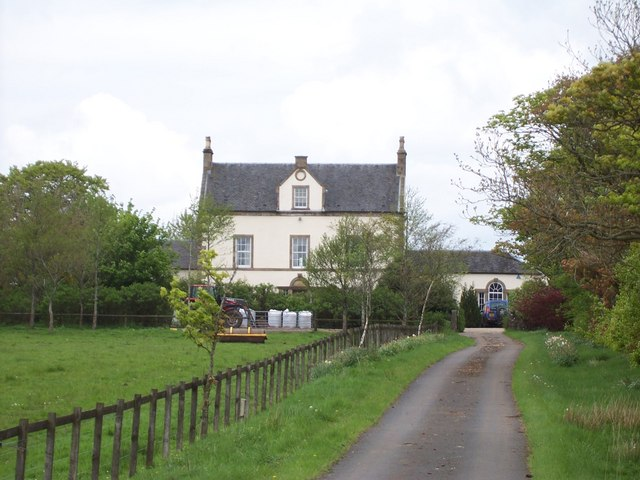 High Williamshaw. A fine building, off the B769 NE of Stewarton.